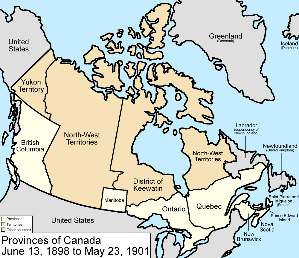 Map of the provinces and territories of Canada as they were between 1898 and 1901. On June 13 1898, Yukon Territory was separated from the North-West Territories, mostly equal to the borders of the NWT's District of Yukon. Also on this day, part of the North-West Territories was given to Quebec. Sometime in 1901, Yukon Territory's land was increased a little from land taken from the north-West Territories. Made by User:Golbez.